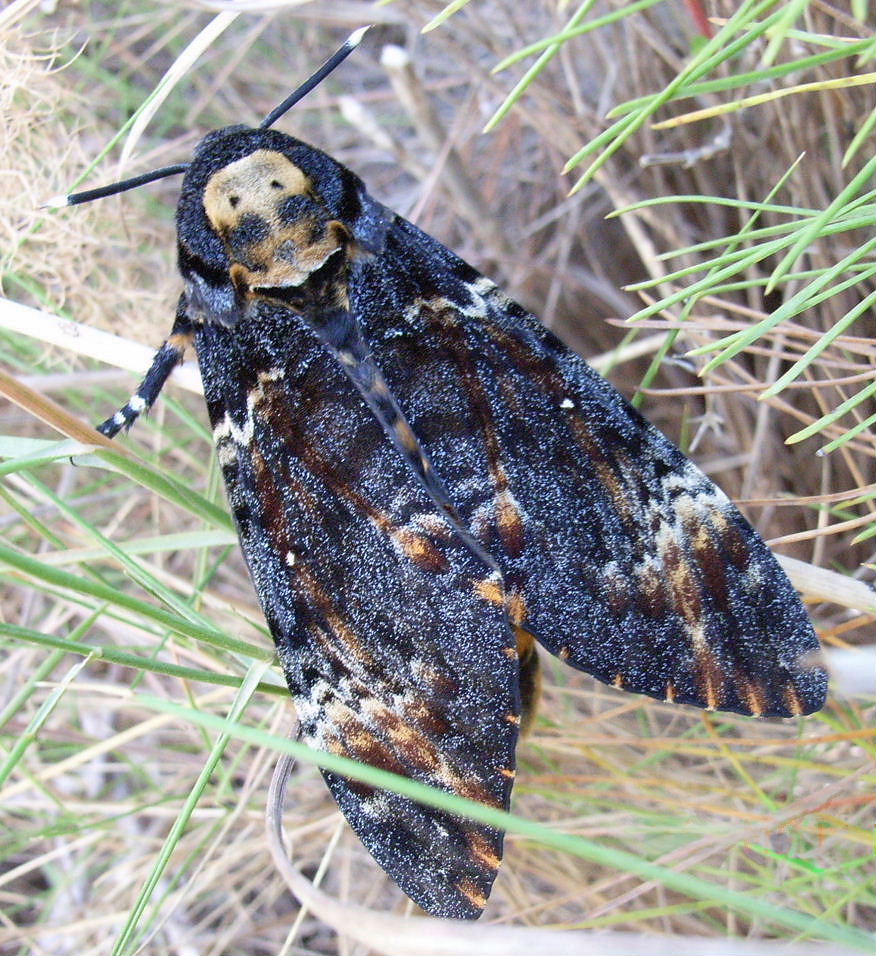 Acherontia atropos from Spain near the coast 200 km south of Barcelona